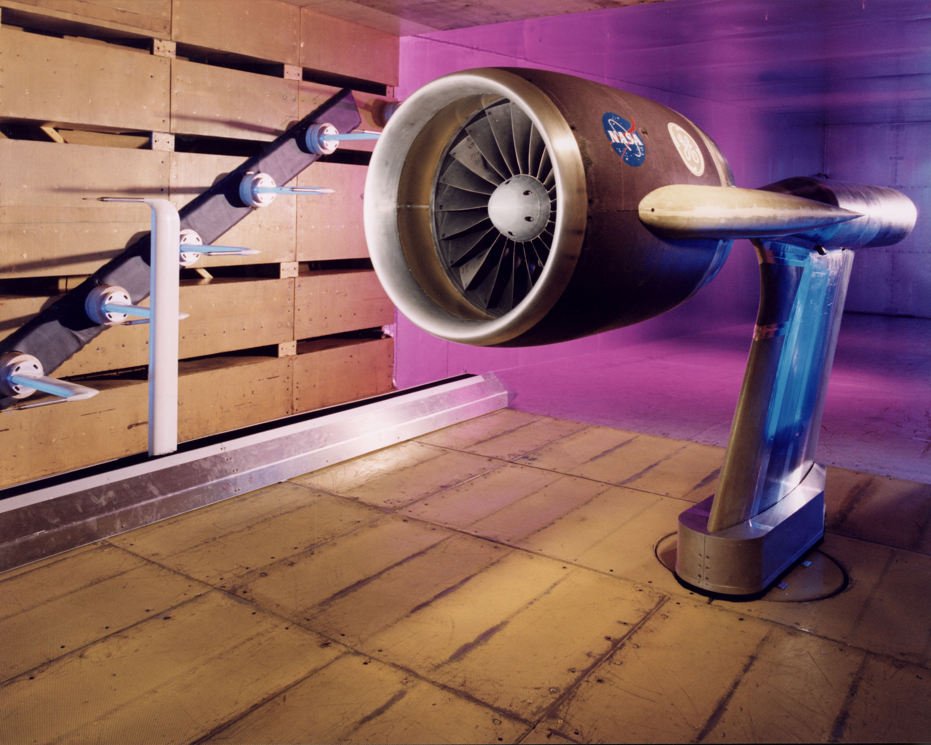 The "Universal Propulsion Simulator" turbofan engine model withstanding noise measurement in the NASA Glenn Research Center 9×15 foot wind tunnel. Arrays of microphones are visible on the wall in the background.